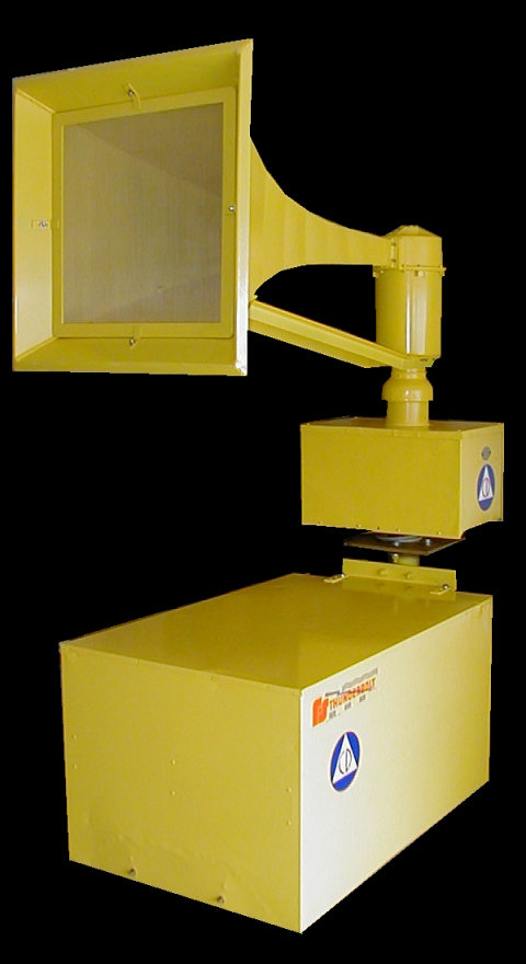 Photo of a Federal Thunderbolt Siren In Shipping Arrangement. This is how the siren was assembled when crated and shipped.